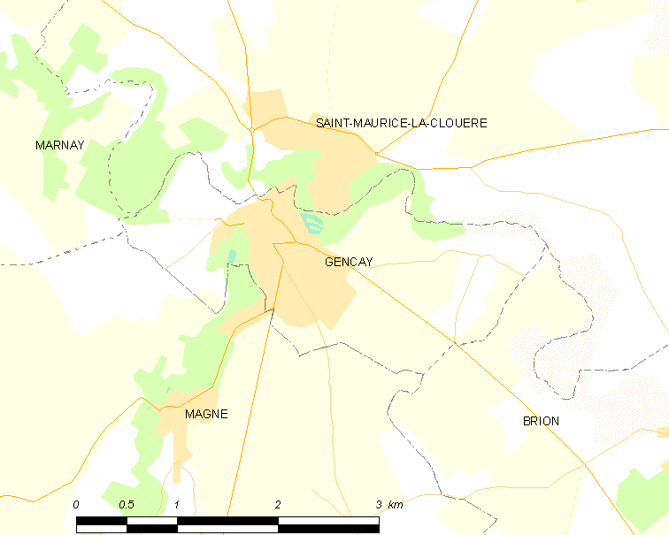 Map of French municipality Gençay